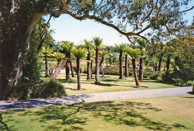 Tree ferns, Logan Botanic Gardens, Mull of Galloway